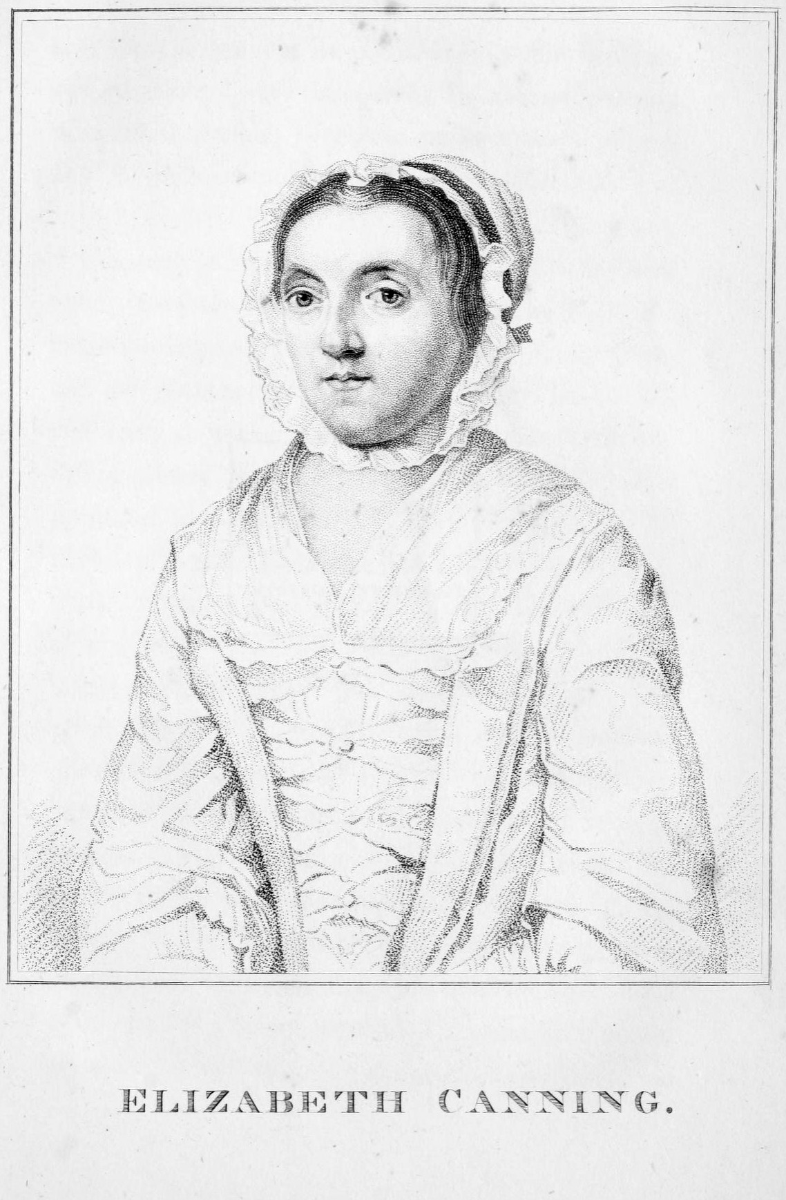 A portrait of Elizabeth Canning, as appeared in Portraits, memoirs, and characters, of remarkable persons, from the revolution in 1688 to the end of the reign of George II. Collected from the most authentic accounts extant